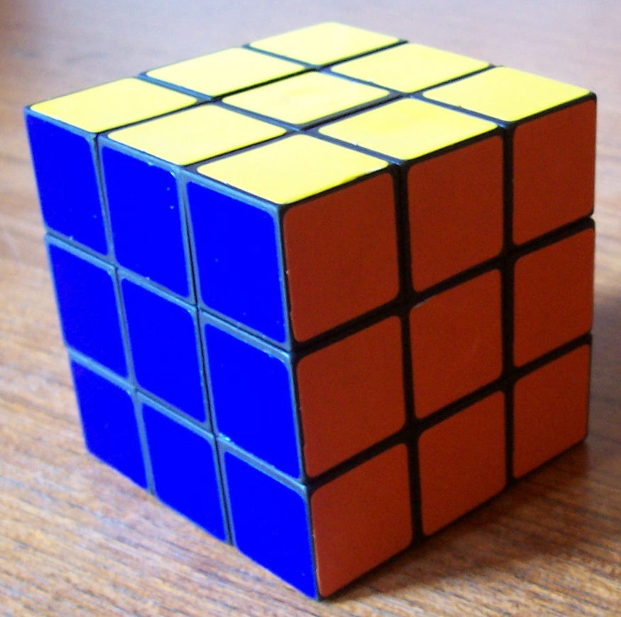 A Rubik's cube on my desk